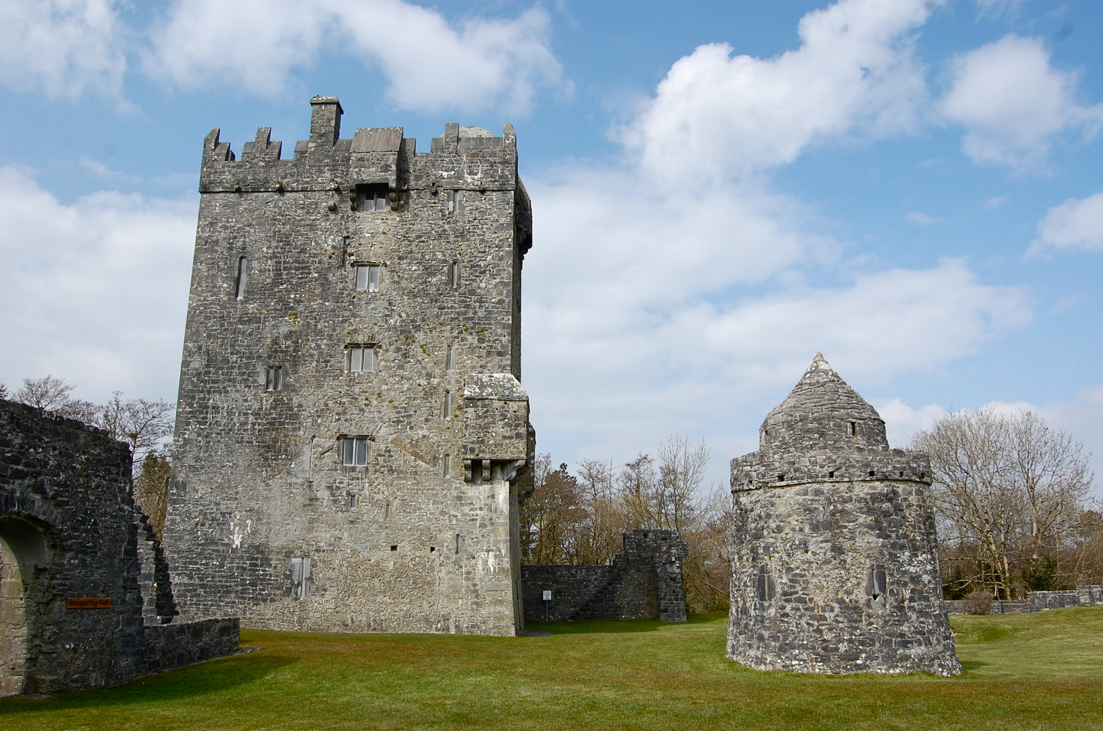 Aughnanaure Castle in Oughterard, County Galway, Ireland